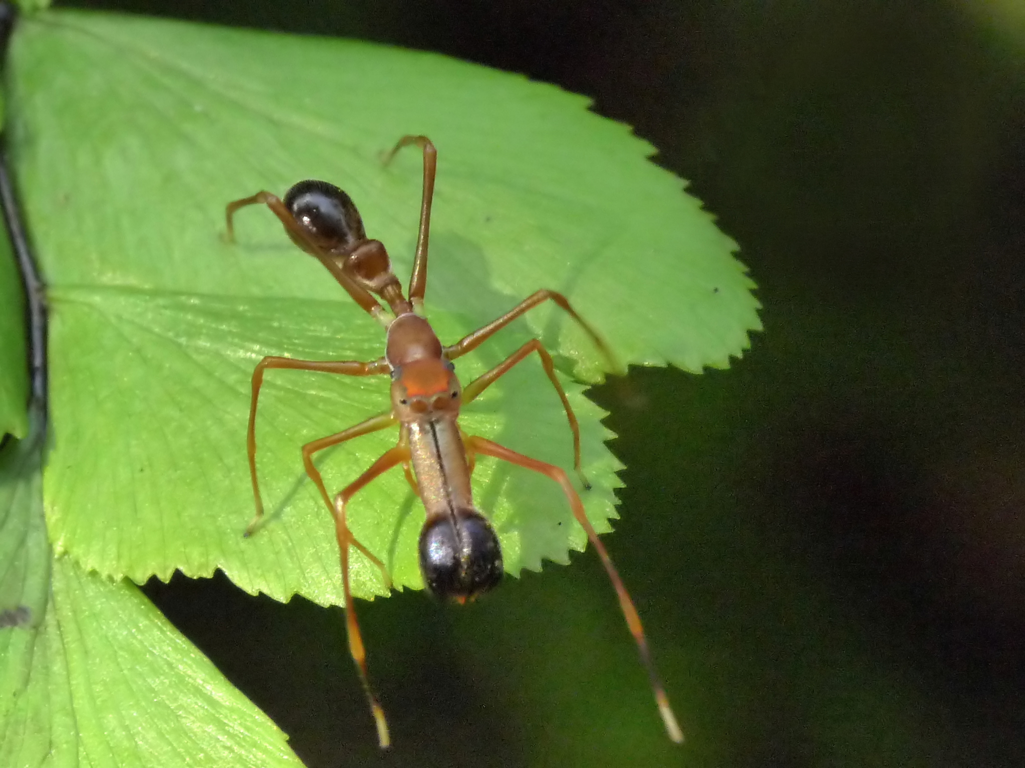 Myrmarachne plataleoides. Kerengga Ant-like Jumper, is a jumping spider that mimics the Kerengga or weaver ant (Oecophylla smaragdina) in morphology and behaviour. This species is found in India, Sri Lanka, China and many parts of Southeast Asia. They, especially the females, mimic the Weaver Ants in size, shape and colour. The body of the M. plataleoides appears like an ant, which has three body segments and six legs, by having constrictions on the cephalothorax and abdomen. This creates the illusion of having a distinct head, thorax and gaster of the weaver ant, complete with a long and slender waist. The large compound eyes of the weaver ant are mimicked by two black patches on the head. The males resemble a larger ant carrying a smaller one. These spiders live in trees and bushes where the weaver ants live in colonies. By mimicking the ants they are able to stay close to them and gain protection from predators. Since weaver ants have a painful bite and also taste bad, this strategy appears to be successful. Though these spiders mimic the weaver ants very well, they are known to stay away from them. They weave a thin web on leaves, hide under their webbing and ambush their prey. They also mimic ant-like behaviour by the style of locomotion and by waving their front legs like antennae. These jumping-spiders jump only when their safety is threatened.